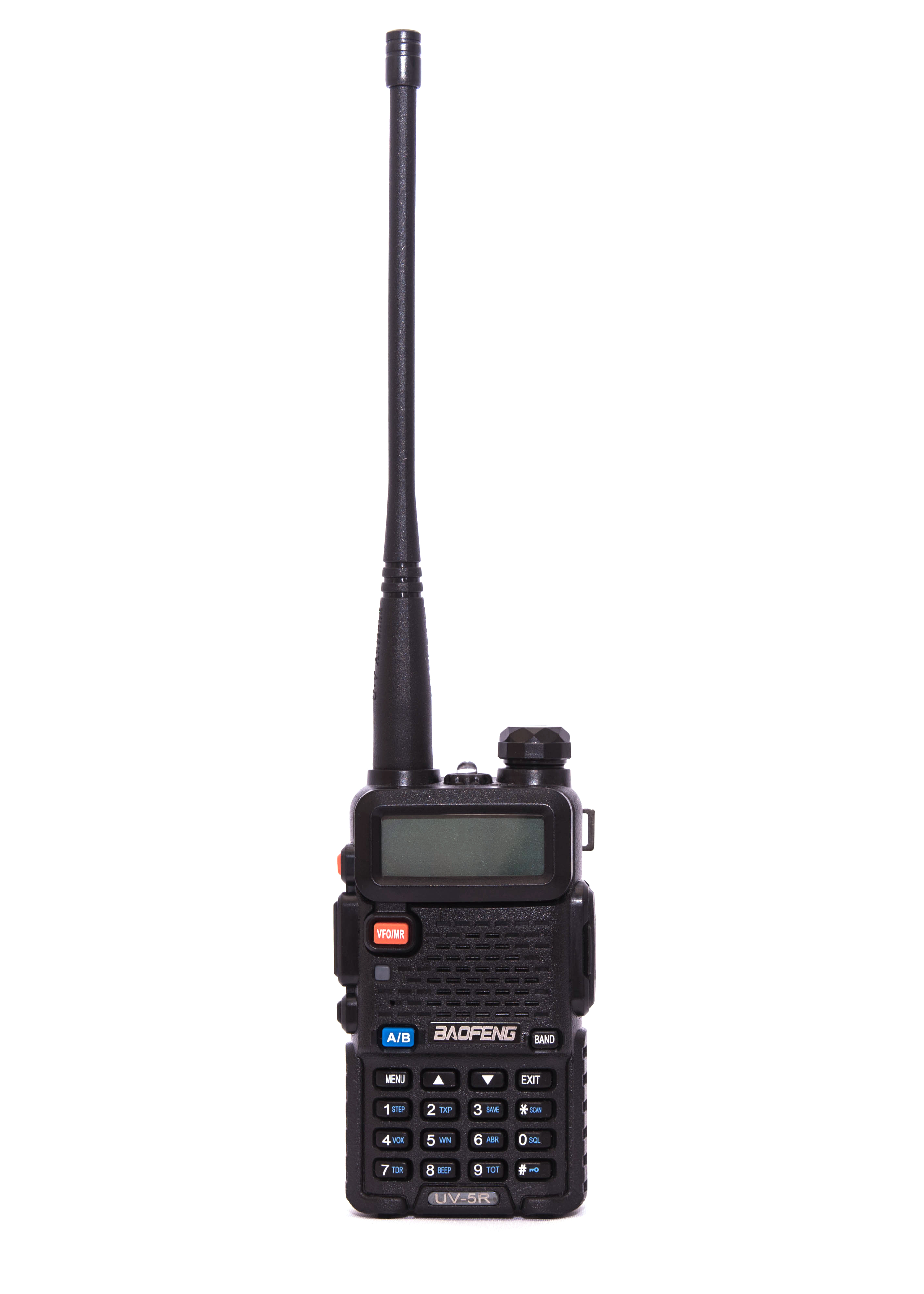 Dual band amateur VHF/UHF transceiver Baofeng UV-5R